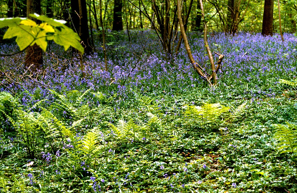 Description Dworp hyacintjes in Hallerbos. publish Dworp hyacintjes in Hallerbos.